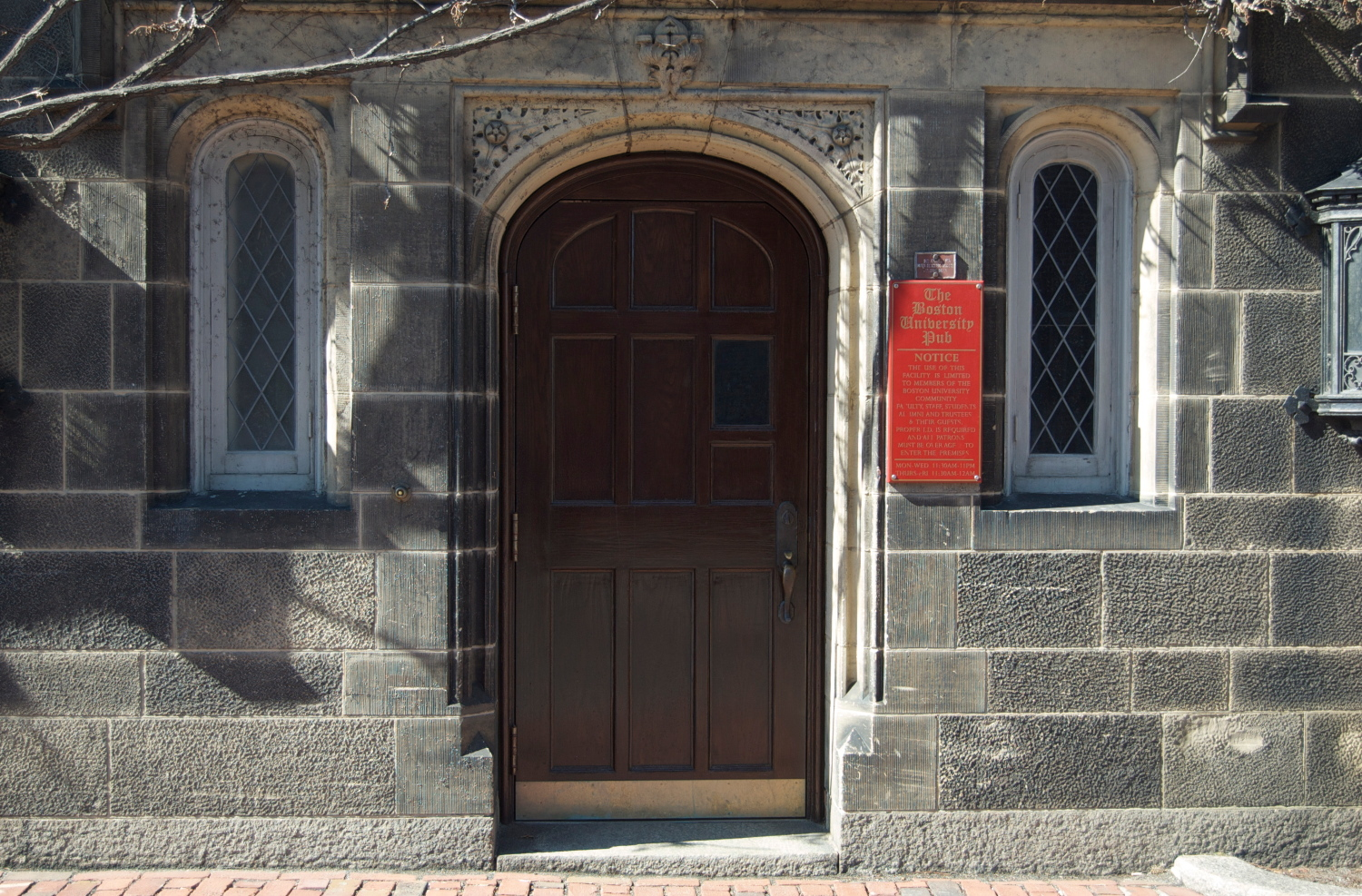 The Boston University Pub, located on the side of the BU Castle